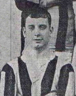 Dave Maher at Brentford FC 1902/03